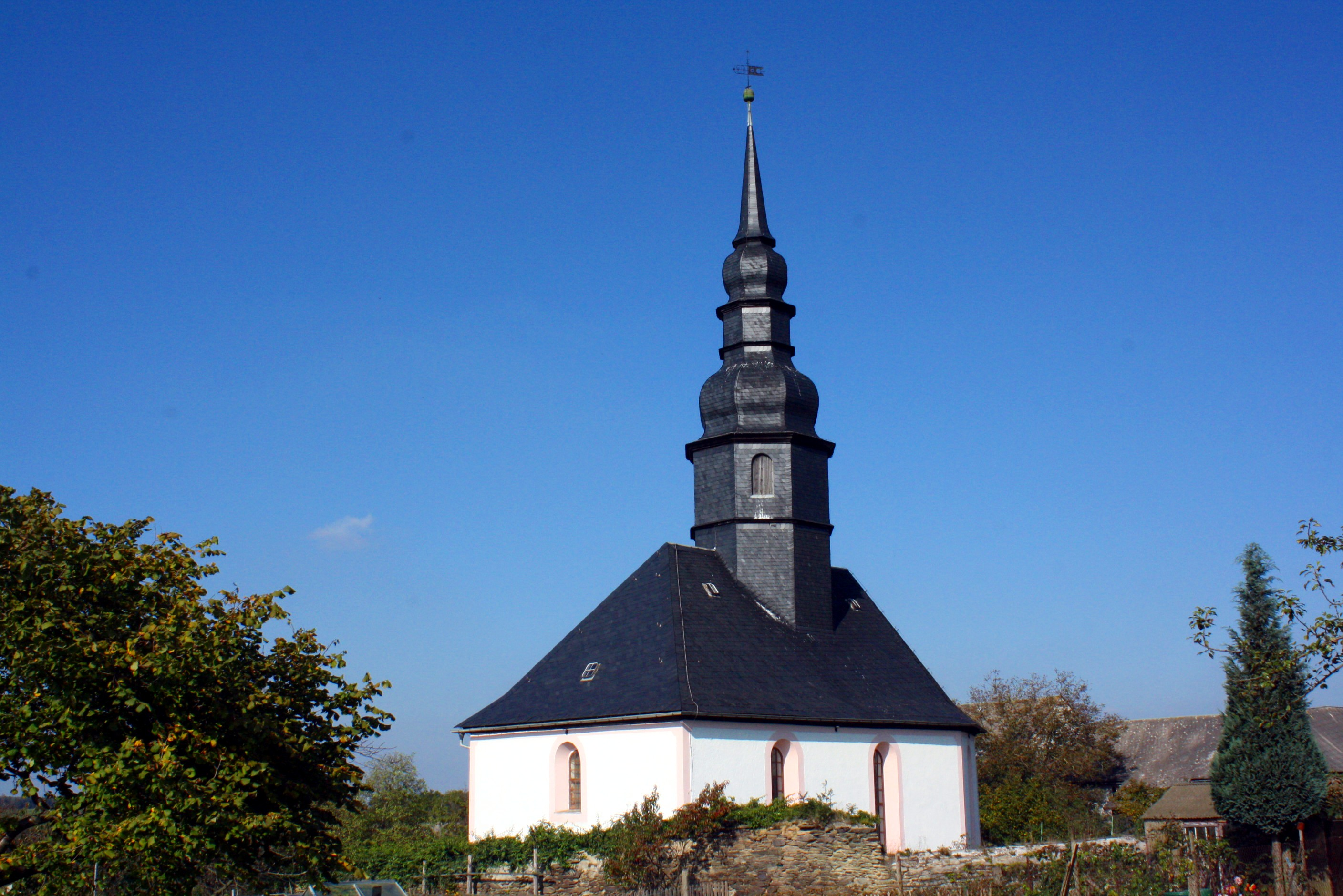 Church in Kühdorf near Greiz/Thuringia